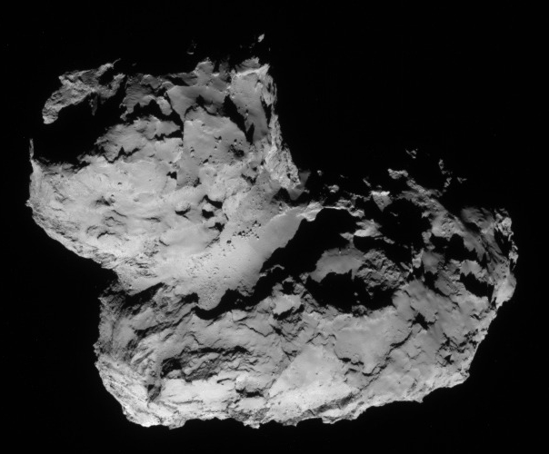 Rosetta navigation camera image taken on 11 August 2014 at about 102 km from comet 67P/Churyumov-Gerasimenko. The comet nucleus is about 4 km across.